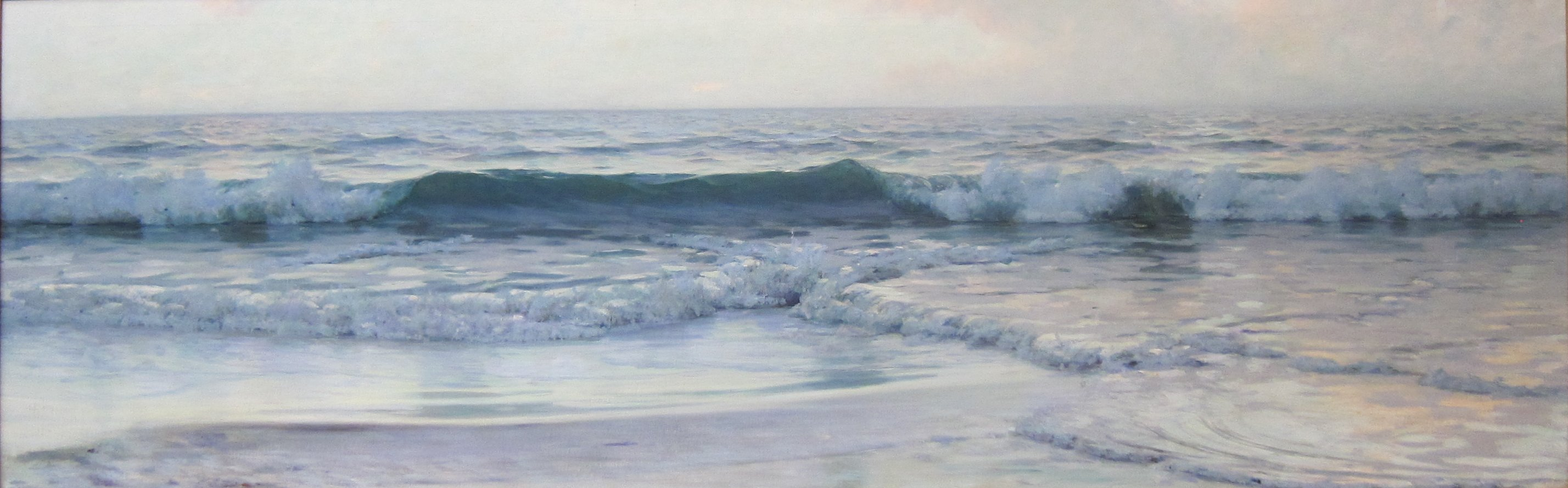 The Wavelabel QS:Len,"The Wave" label QS:Lfr,"La vague"